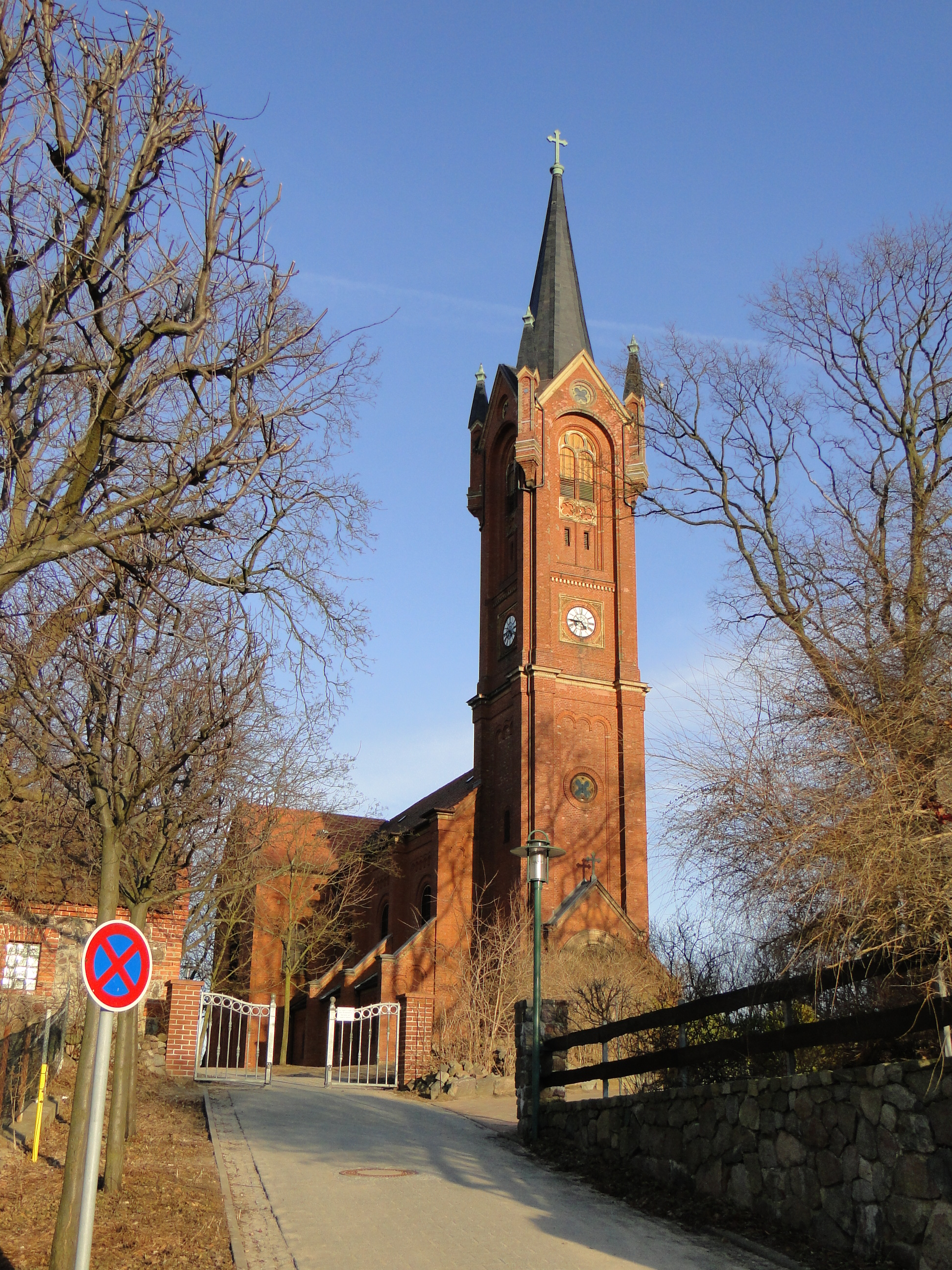 Church in Feldberg, district Mecklenburg-Strelitz, Mecklenburg-Vorpommern, Germany